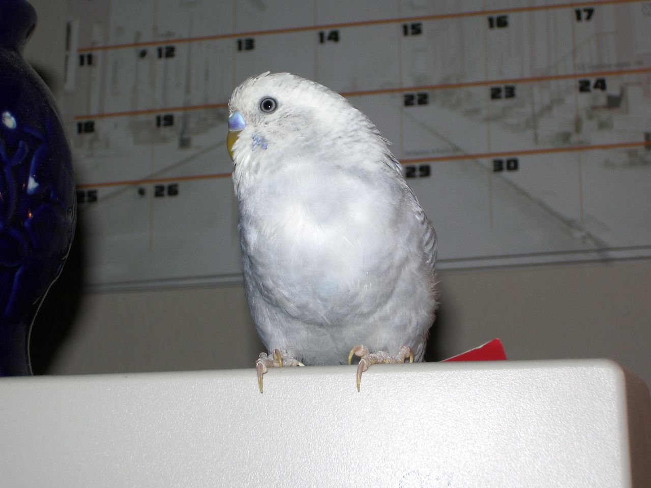 Male Budgerigar, Melopsittacus undulatus, with a full crop.